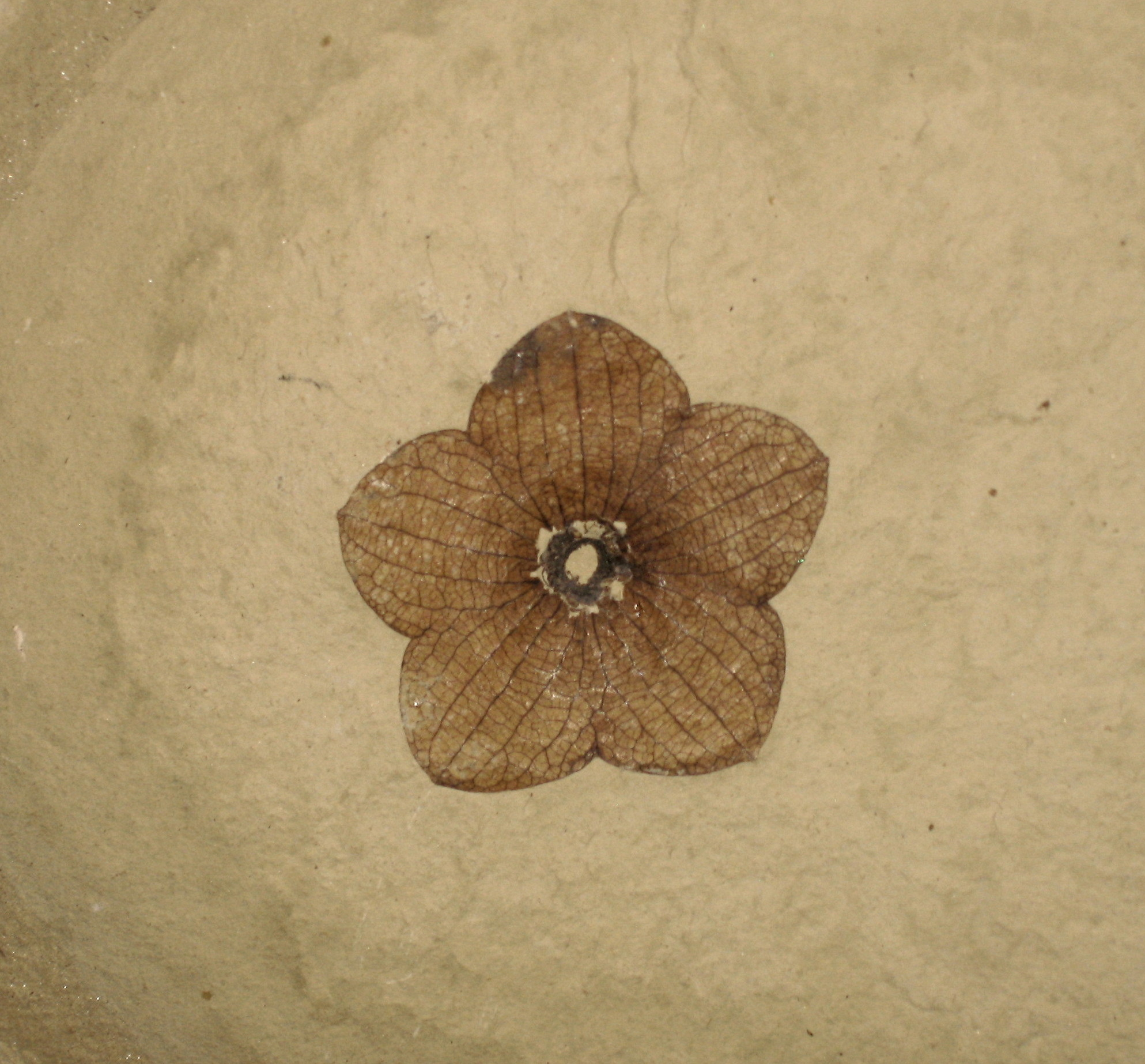 A 2.7cm across Florissantia quilchenensis, consisting of the modified and fuzed sepals without any associated petals. Klondike Mountain Formation, Republic, Ferry County, Washington, USA, Eocene, Ypresian, 49million years old. Stonerose Interpretive Center Collection #